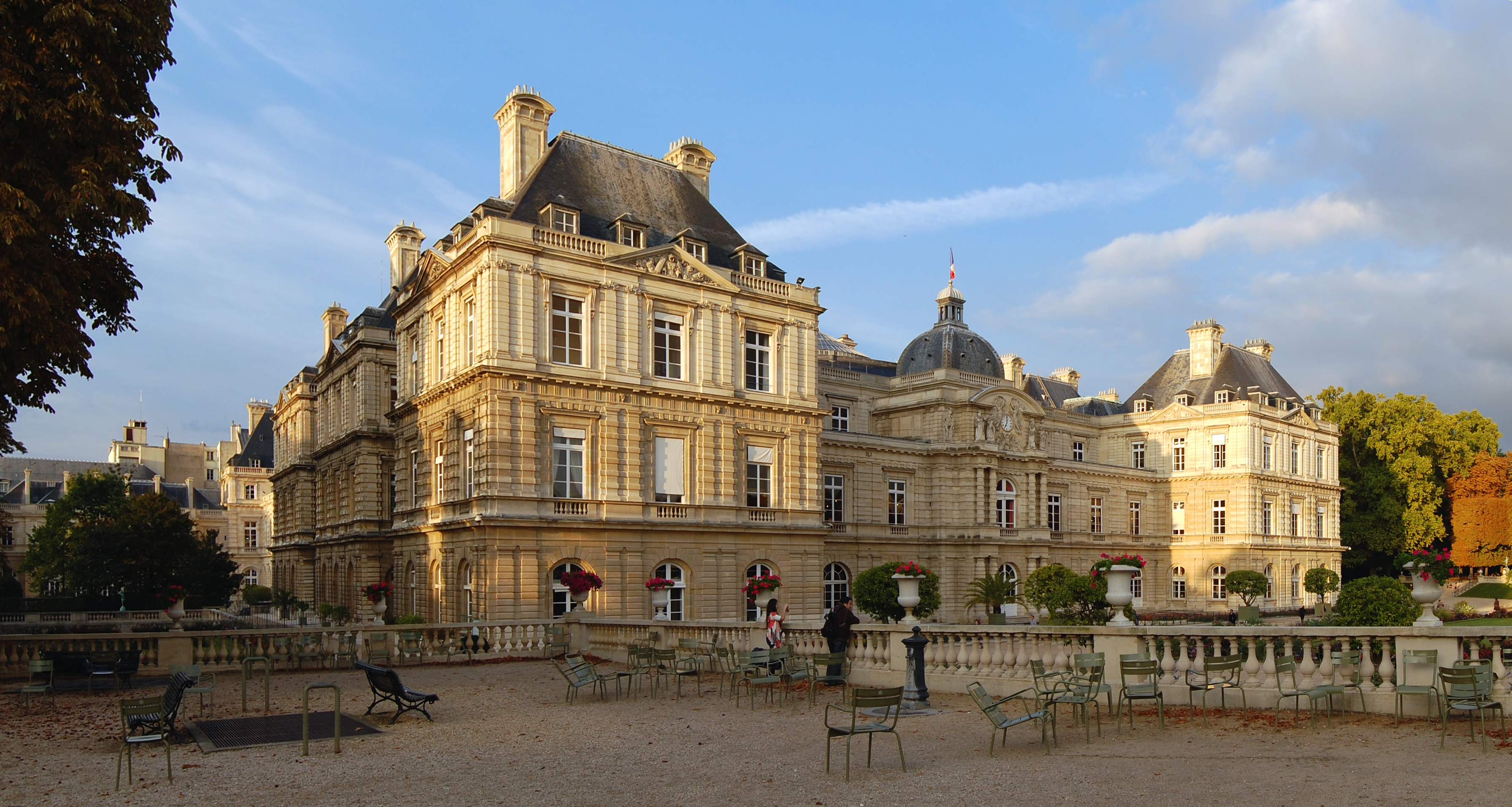 Jardin du Luxembourg, Paris.